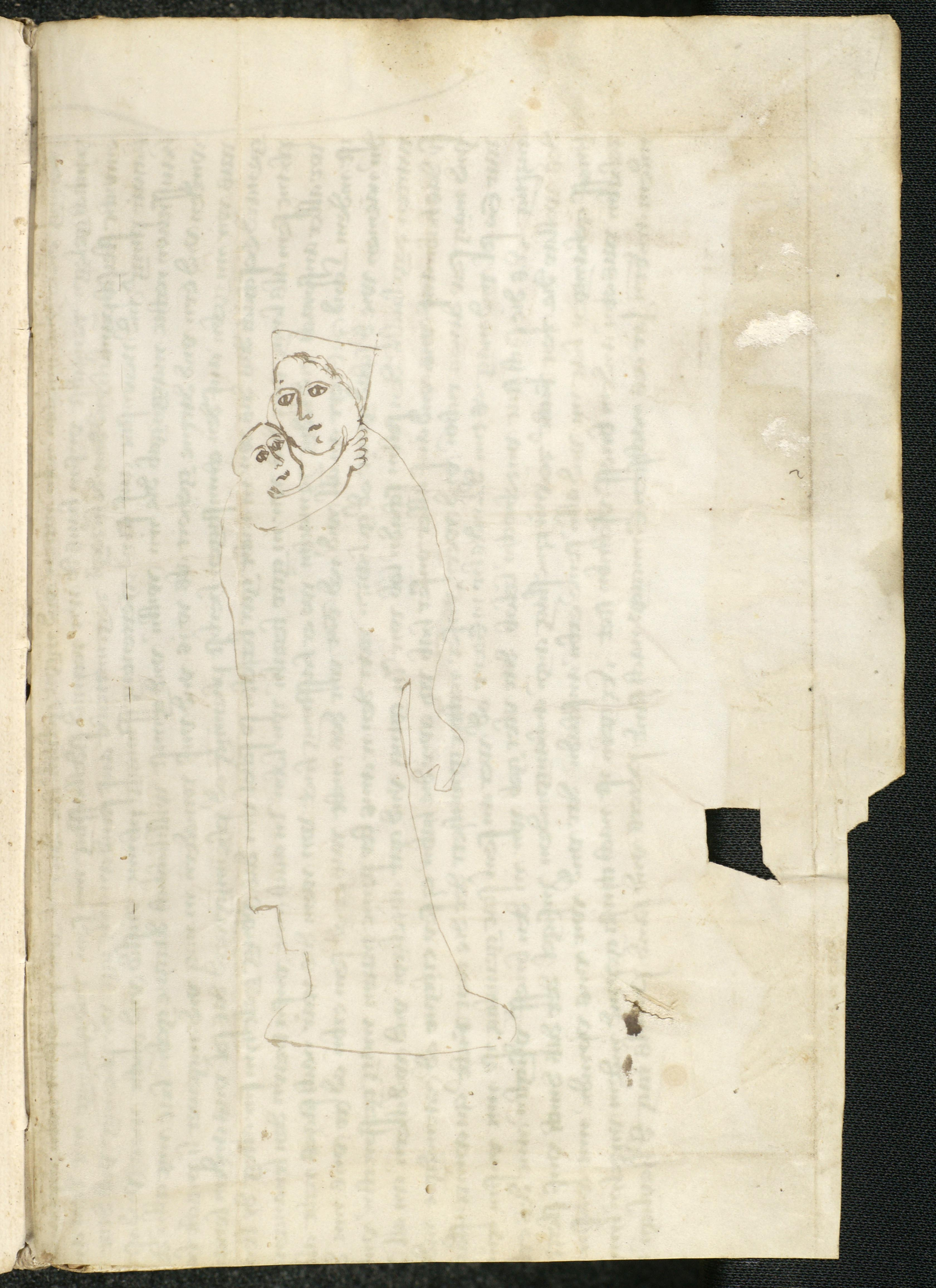 Nachzeichnung der Neuberger Madonna (?) am Ende einer lateinischen Handschrift aus Neuberg an der Mürz, geschrieben von Andreas Kurzmann, Universitätsbibliothek Graz, Ms. 1253 (1403), hinteres Vorsatzblatt